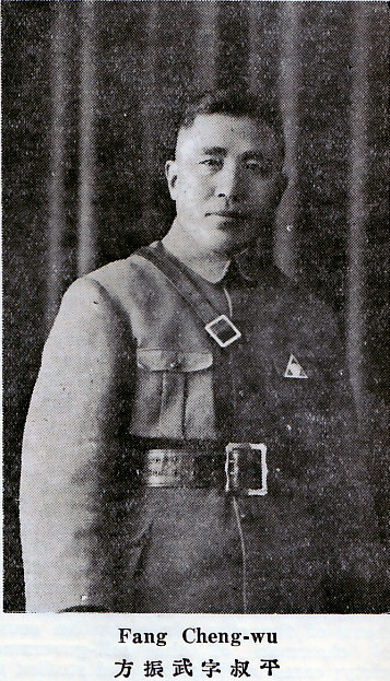 Fang Zhenwu (Fang Chen-wu) (1882 - 1941)